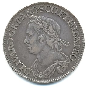 Commonwealth half-crown (1658), bearing head of Cromwell in classical style. Inscription: OLIVAR[IVS]·D[EI]·G[RATIA]·R[EI]P[VBLICAE]·ANG[LIAE]·SCO[TIAE]·ET·HIB[ERNIAE]&cPRO[TECTOR] / Oliver, by the grace of God and of the Republic, of England, Scotland, and Ireland etc. Protector.